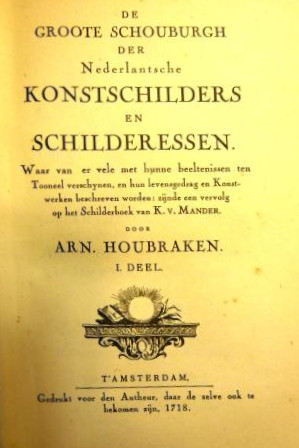 Title page of Arnold Houbraken's Schouburg from 1718